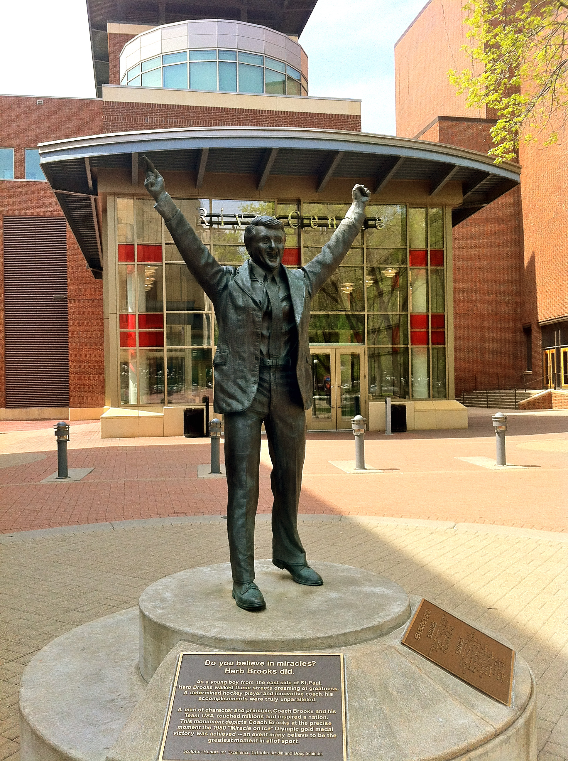 Do you believe in miracles?